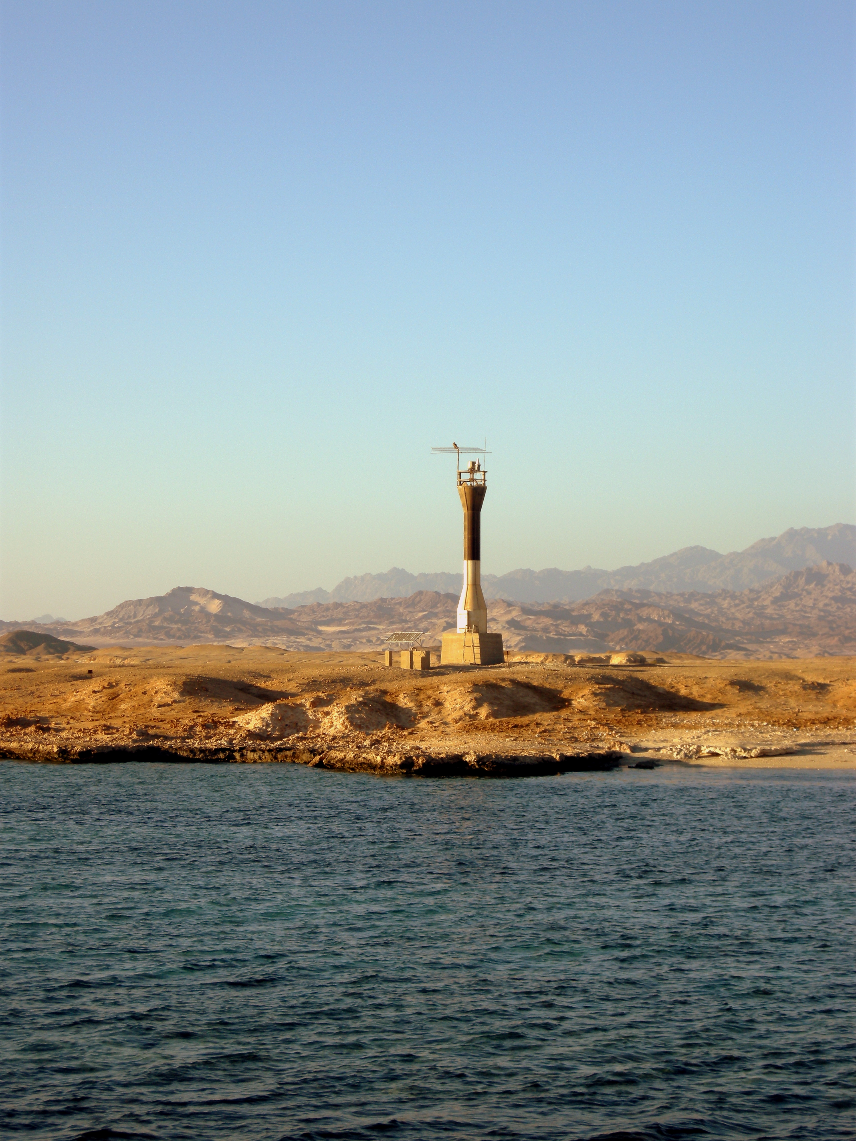 Ras Mohammed Lighthouse